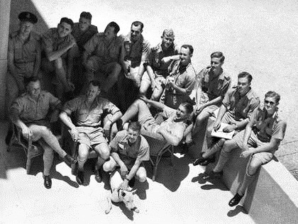 Lydda. Group of Australian and English air force officers (RAAF & RAF) on the verandah of the main building at Lydda Airport at present being used as HQ for squadron operating in Palestine. Front row, left to right: Bob Gibbs; Ed Jackson; Flying Officer T.H. Tom Trimble; Peter Turnbull. Rear, sitting on wall, left to right: John Jackson; Squadron Leader J.C. Laver (Medical Officer); Woof Arthur; Captain Binnie; Flight Lieutenant A.C. Rawlinson; Flight Lieutenant J.R. Jock Perrin; John Davidson; Bill Mcinnis; Flying Officer W.E. Jewell; Brian Bracegirdle.